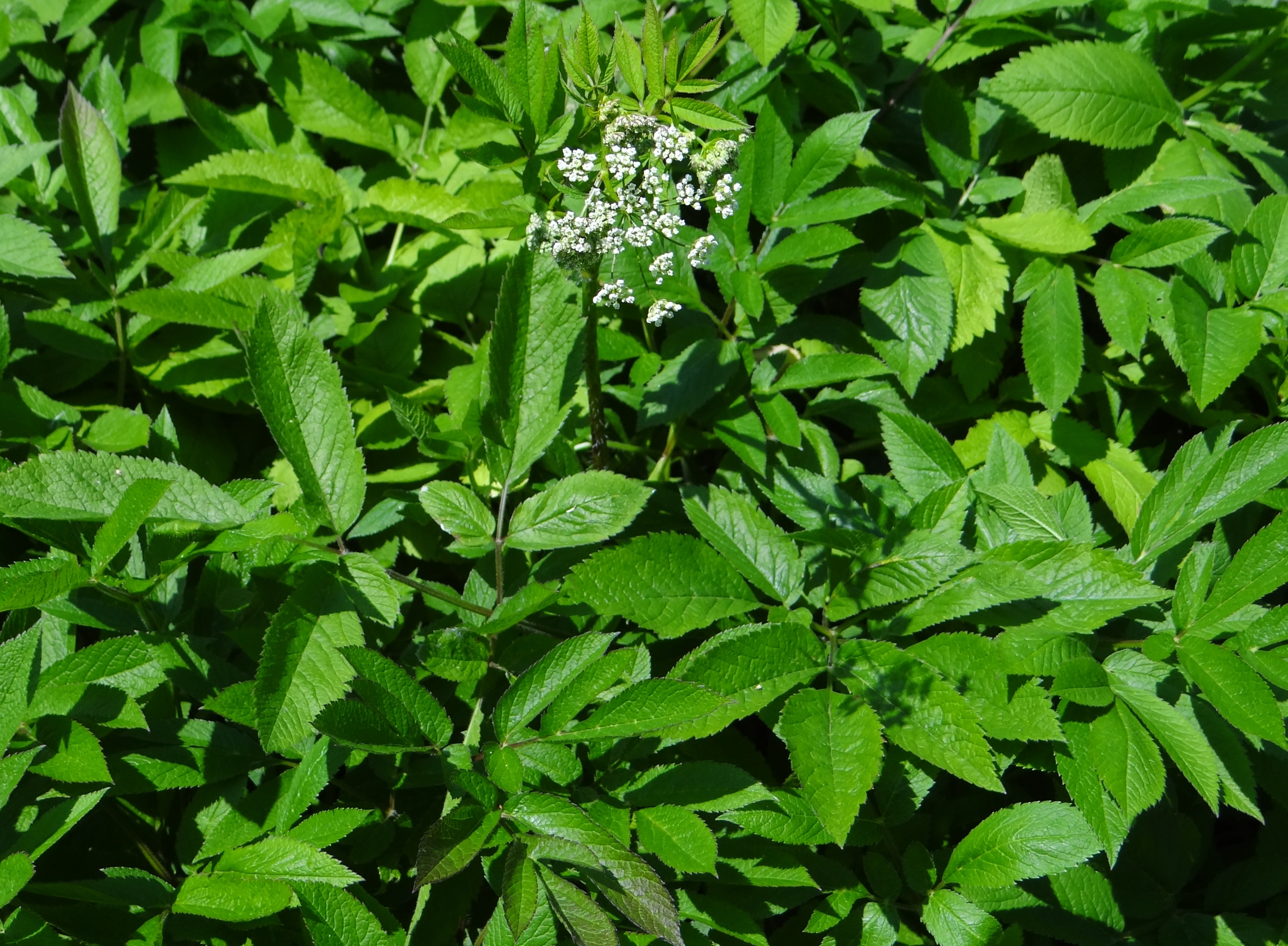 Chaerophyllum aromaticum (location:Botanical Garden in Cracow)